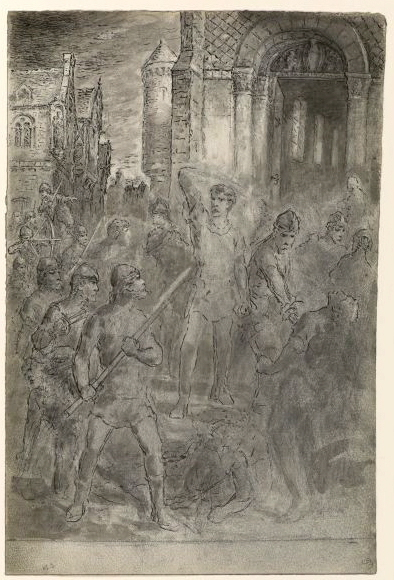 Robert le Fort à la bataille de Brissarthe (866)